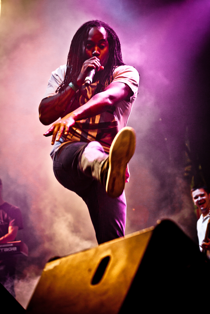 Kevin Mark Trail of The Streets performing live at Parklife, Sydney 2011